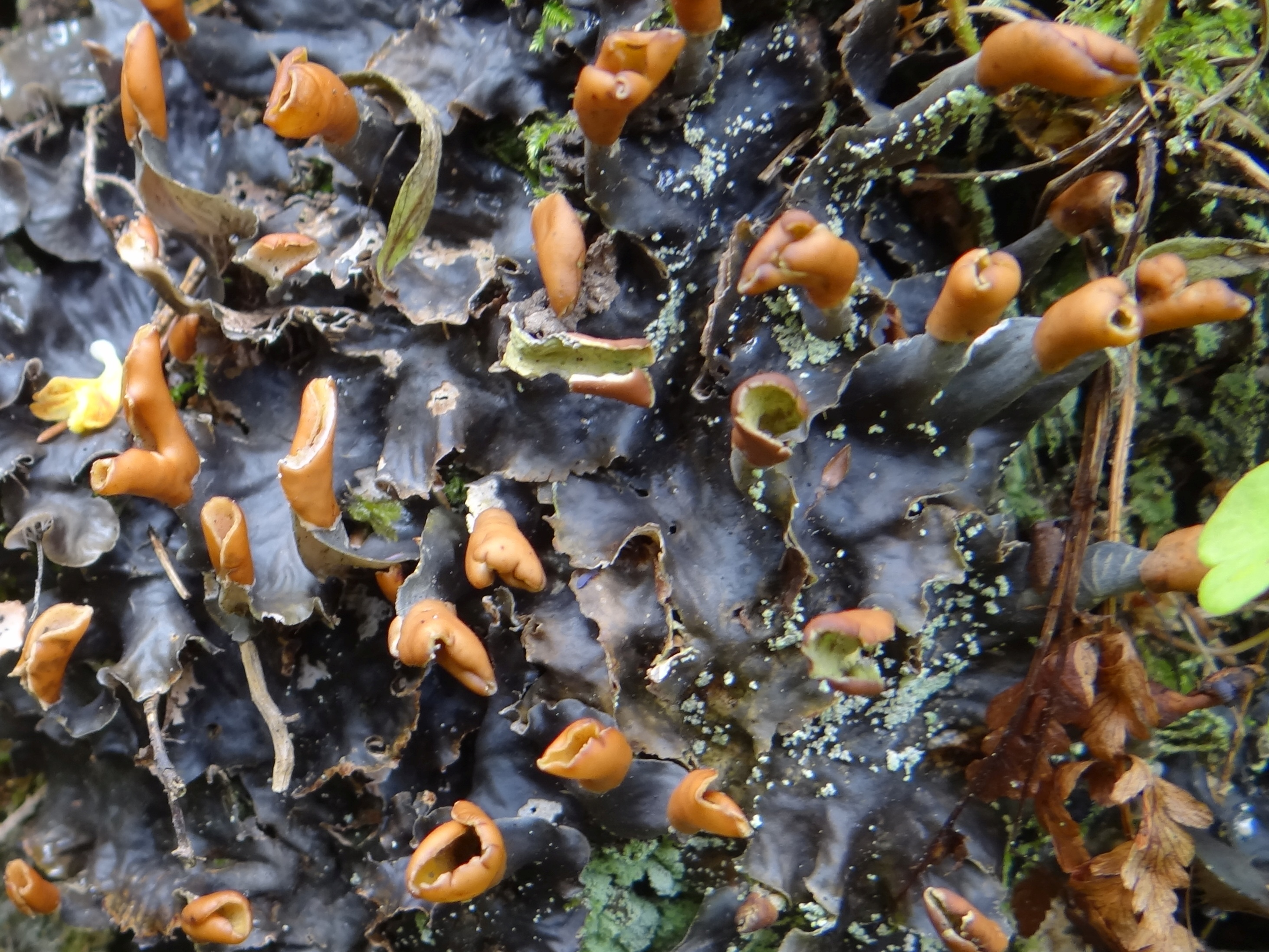 Peltigera membranacea (location: Slovakia, Nízke Tatry)